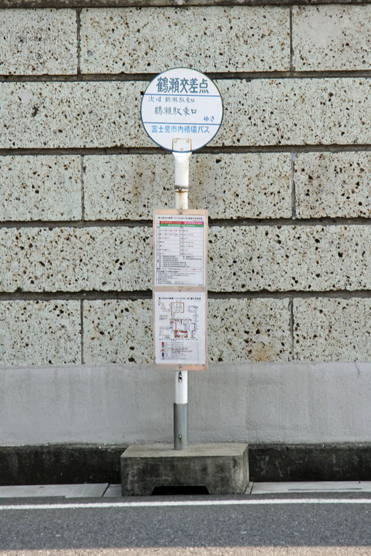 Bus stop of Fujimi City Circulation Bus at Tsuruse, Fujimi, Saitama, Japan